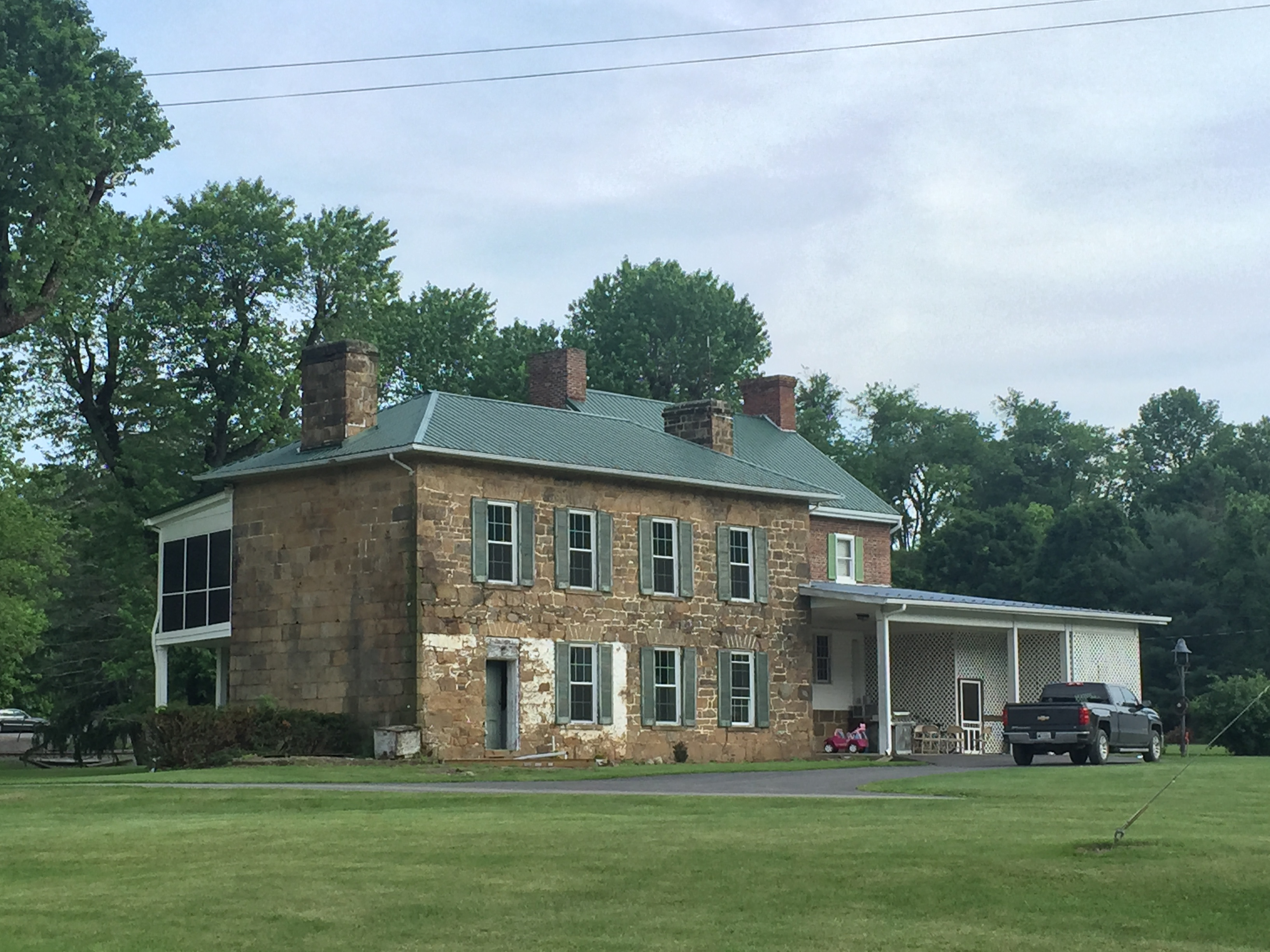 Wappocomo is a late 18th-century Georgian mansion overlooking the South Branch Potomac River north of Romney in the U.S. state of West Virginia. The rear elevation of the stone addition of Wappocomo was photographed by Justin A. Wilcox of Washington, D.C. on June 7, 2015.